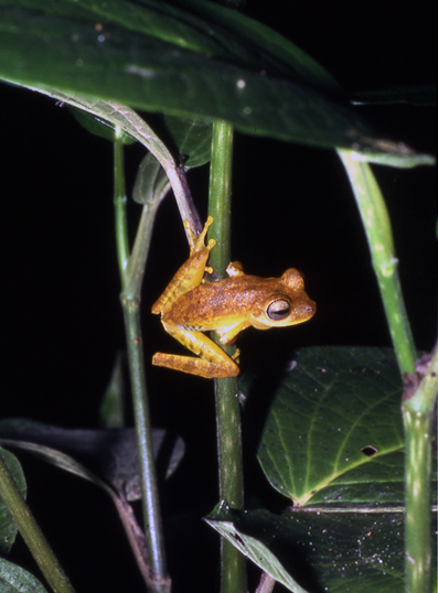 Hypsiboas fasciatus